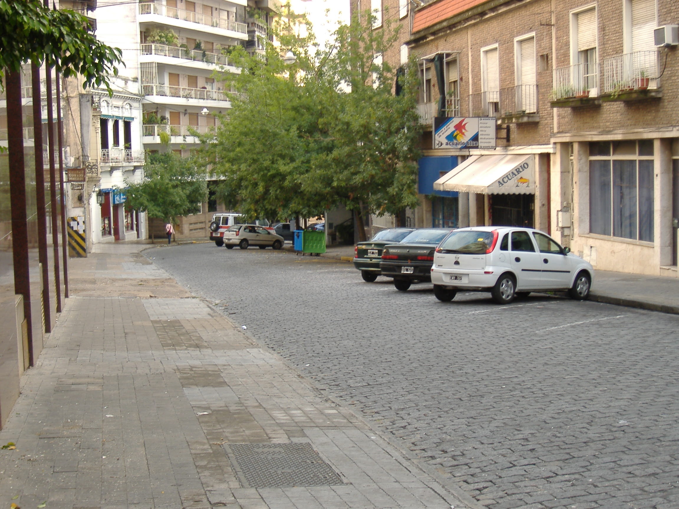 Bajada Sargento Cabral, a street in the historical center of Rosario, Argentina. It is a short curved street that descends from the downtown to Belgrano Avenue, which runs following the shore of the Paraná River. This picture was taken by Pablo D. Flores on 3 March 2006.